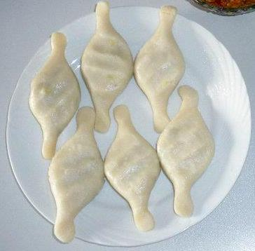 Bagya